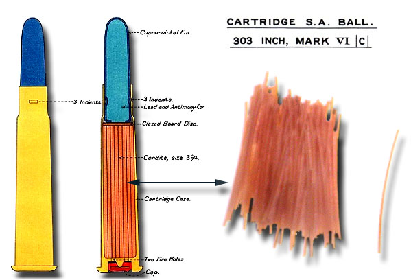 Diagrams showing interior and exterior of British .303 Mk VI cartridge.